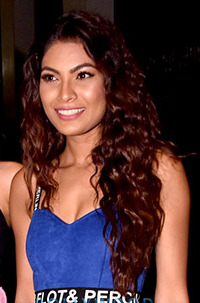 Lopamudra Raut at Ed Sheerans concert in Mumbai